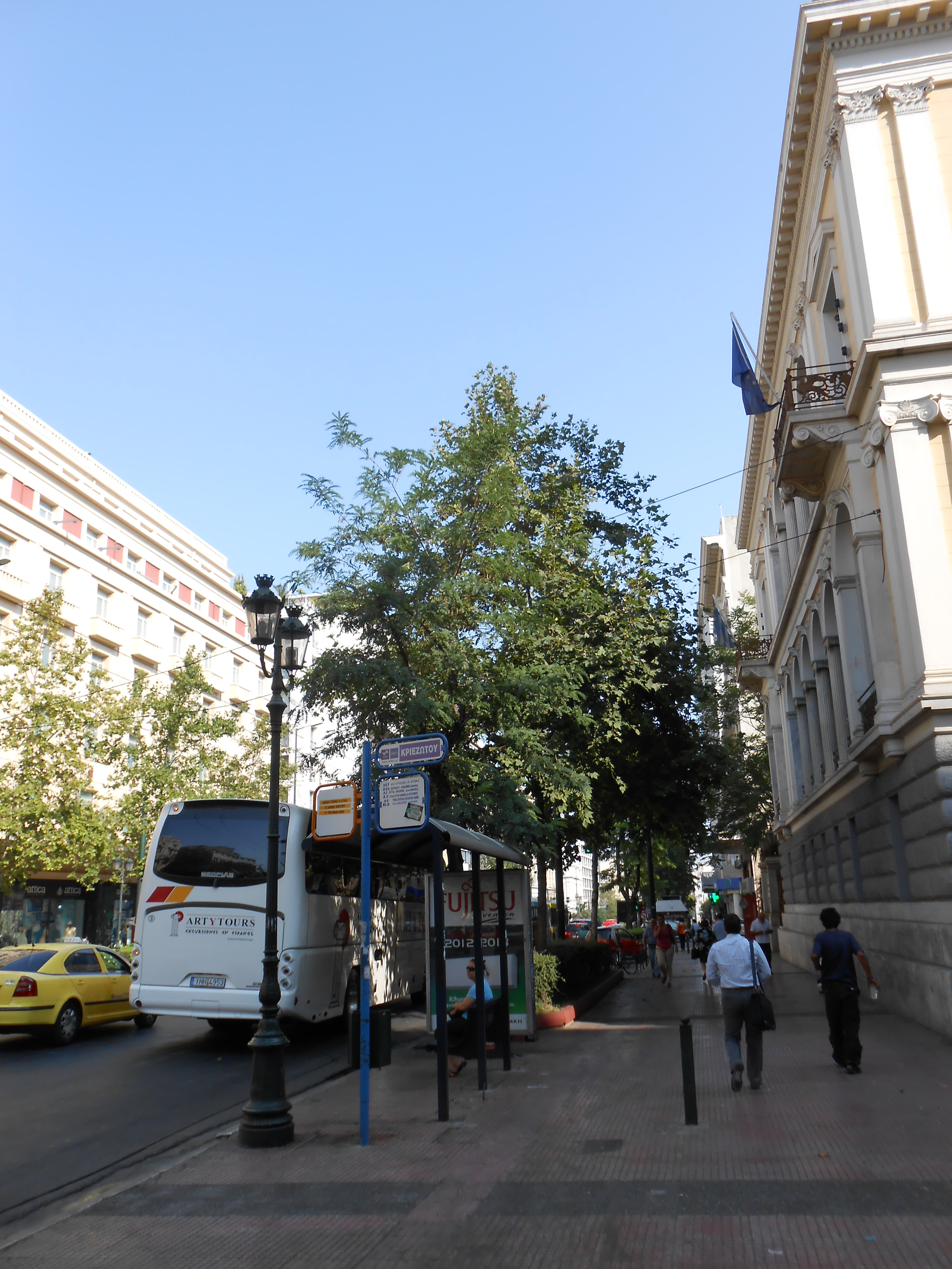 Numismatic Museum of Athens